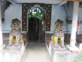 Chadiapada Thakurani Mandir